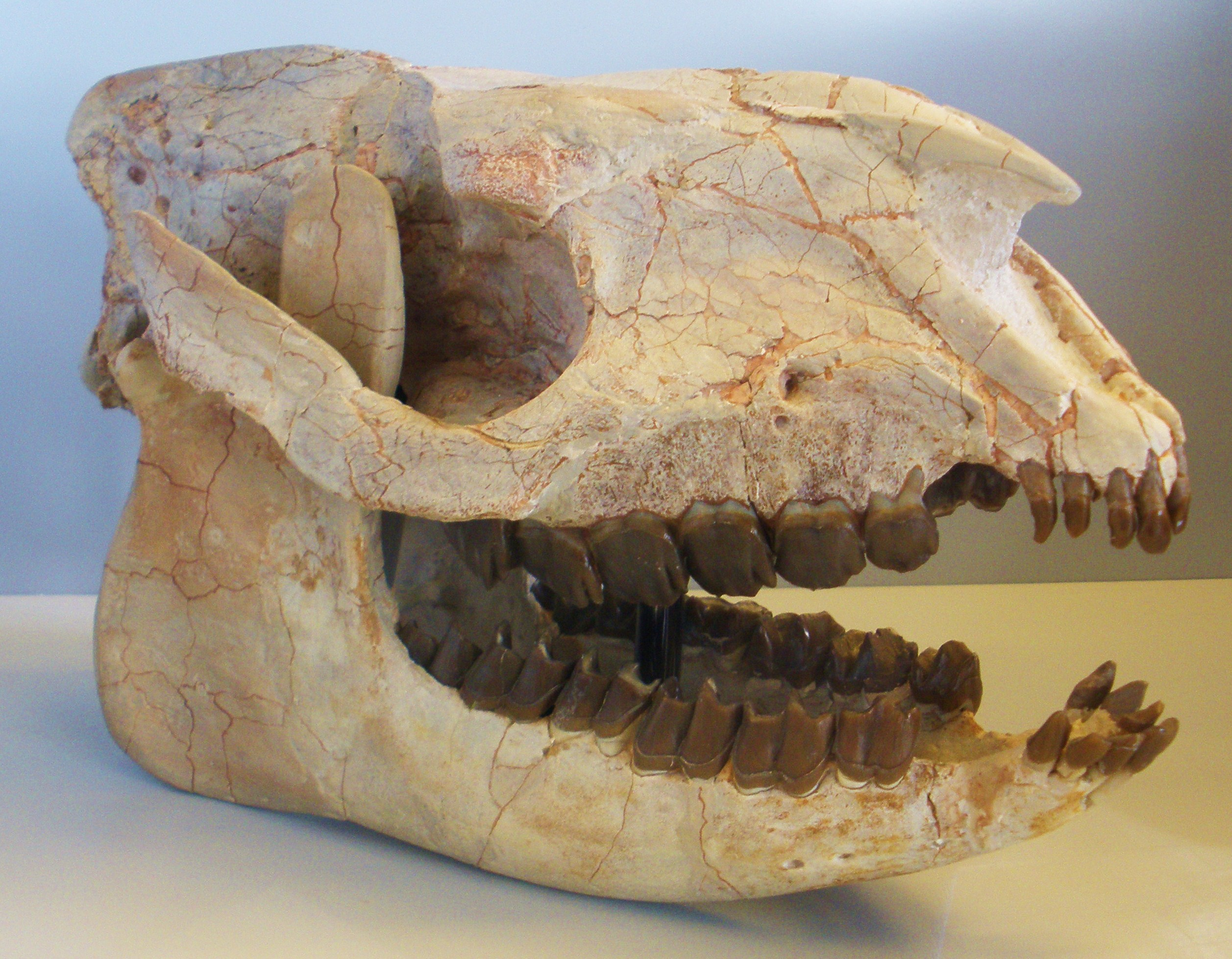 fossil hyracodon